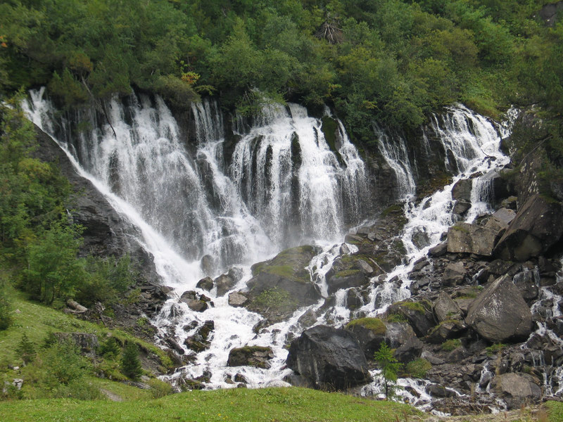 Siebenbrunnen, giant karst spring, resurging the waters of the glacier Plaine Morte in the Bernese Oberland, Switzerland. The glacier waters penetrate the limestone via chasms and joints, widened by tectonics and karstification, then forming the river Simme.